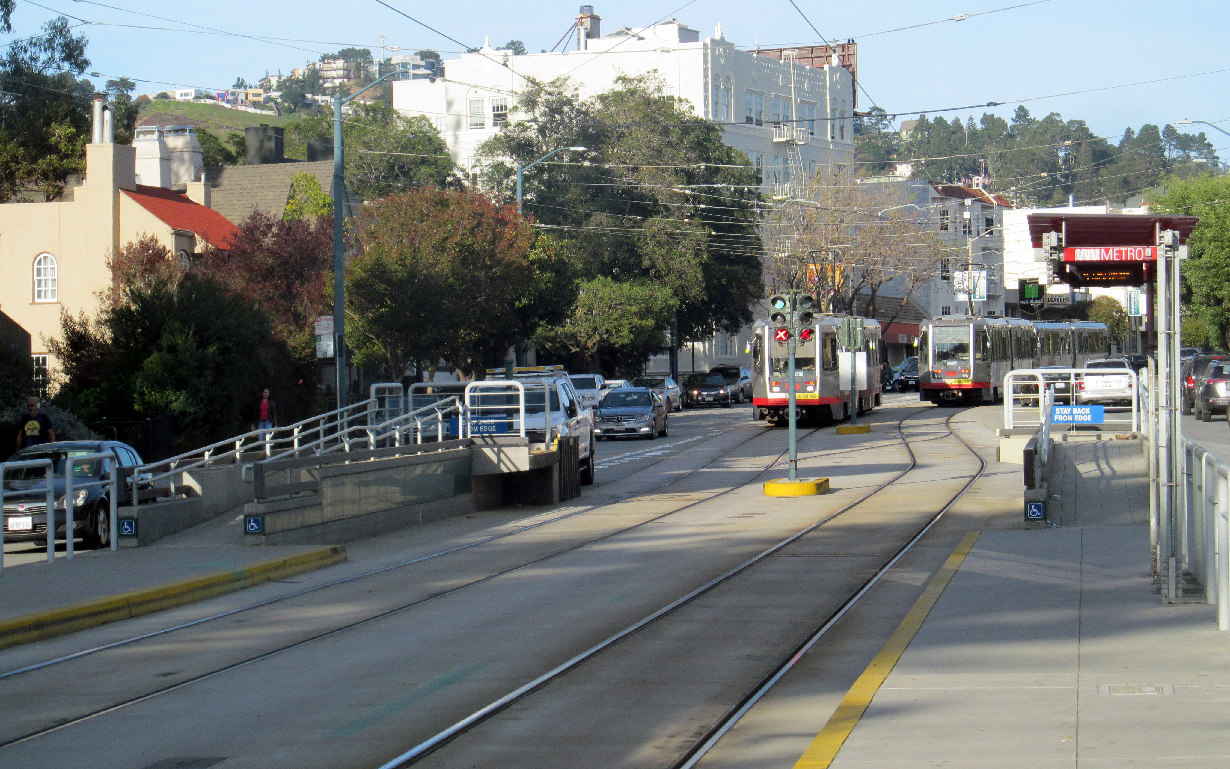 Mini-high platforms at St. Francis Circle station in 2017